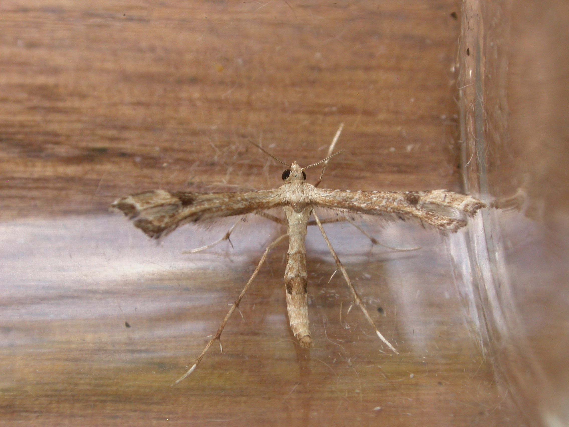 Lantanophaga pusillidactylus (Walker, 1864), Mission Beach, QLD, 20 December 2011